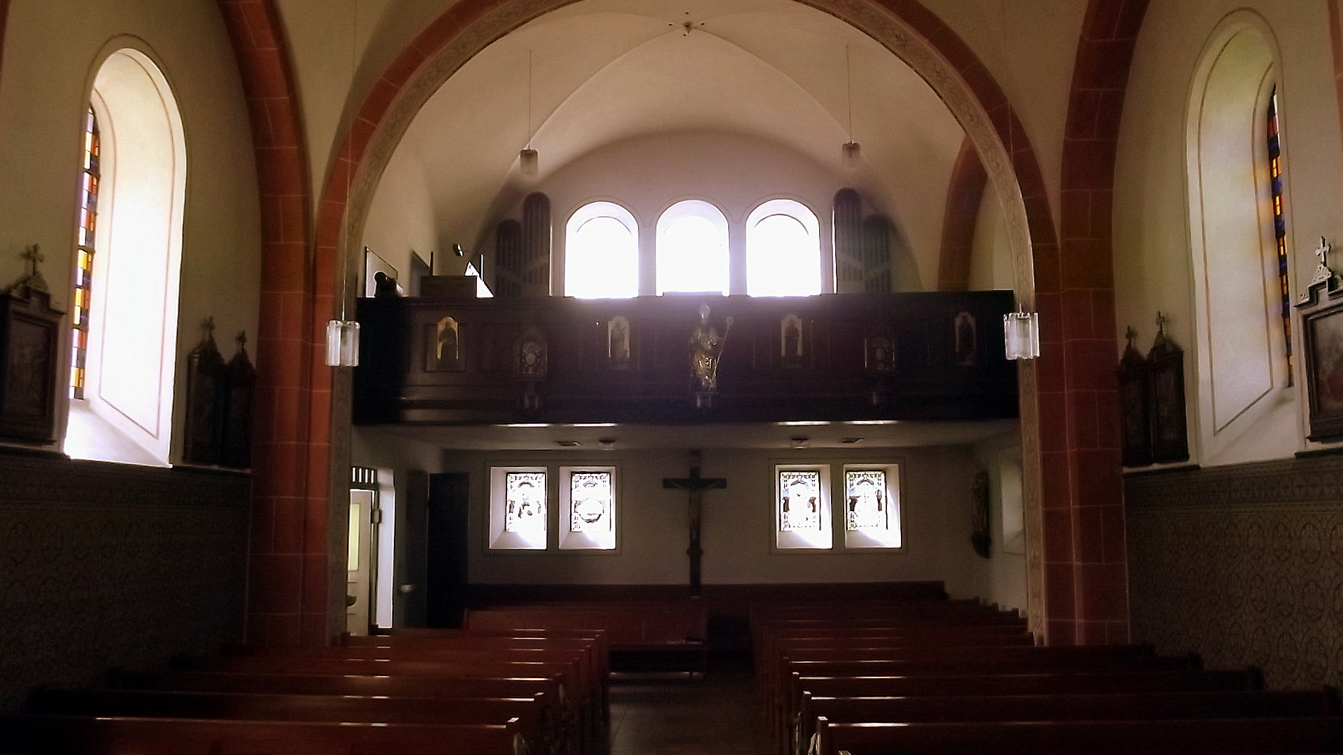 Interior of the roman catholic church in Eft-Hellendorf, Saarland, Germany